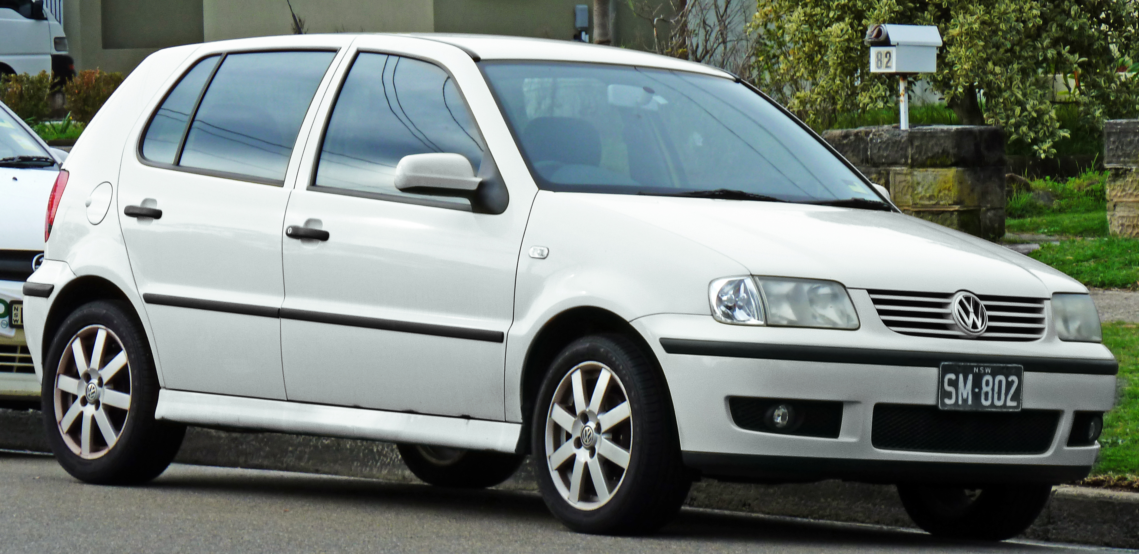 2000–2001 Volkswagen Polo (6N2 MY01) 16V 5-door hatchback. Photographed in Blakehurst, New South Wales, Australia.